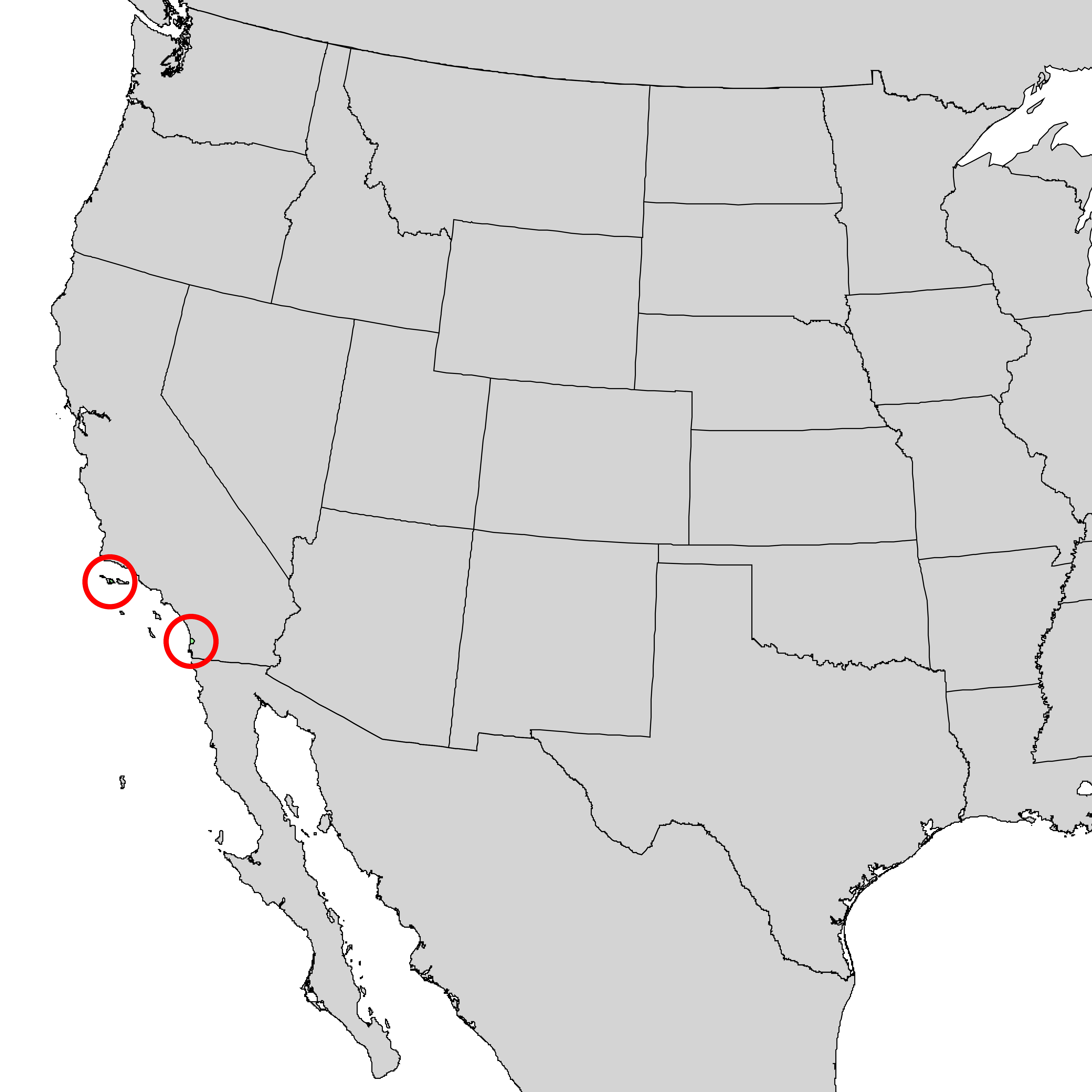 Natural distribution map for Pinus torreyana